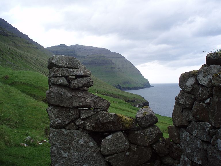 Ruins of Skarð, abandoned village on Kunoy, Faroe Islands. Føroyskt: Útsýnið norðureftir úr toftunum á Skarði.